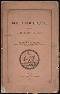 The Birth of Tragedy from the Spirit of Music, by Friedrich Nietzsche.